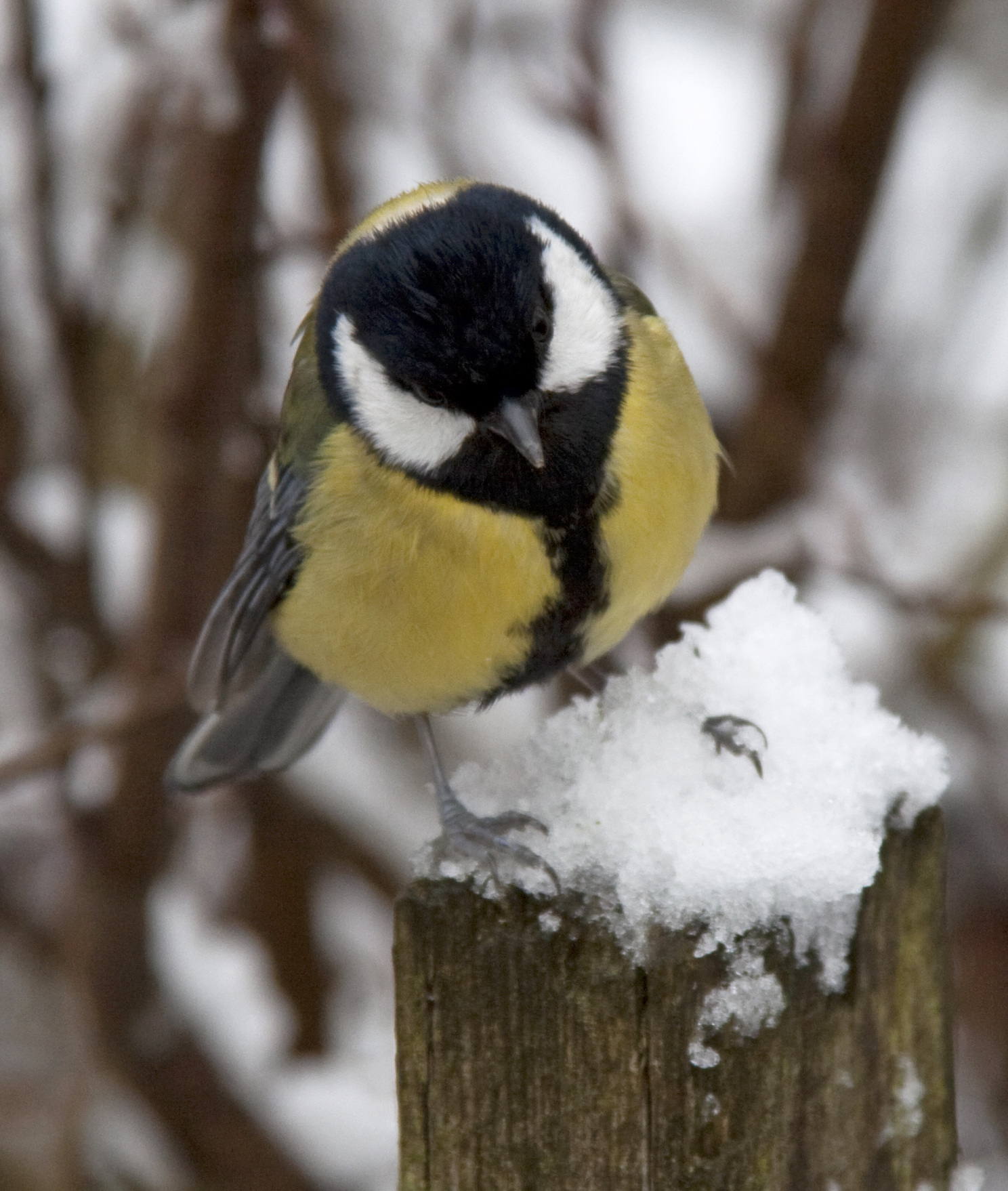 Great Tit in the Snow 2